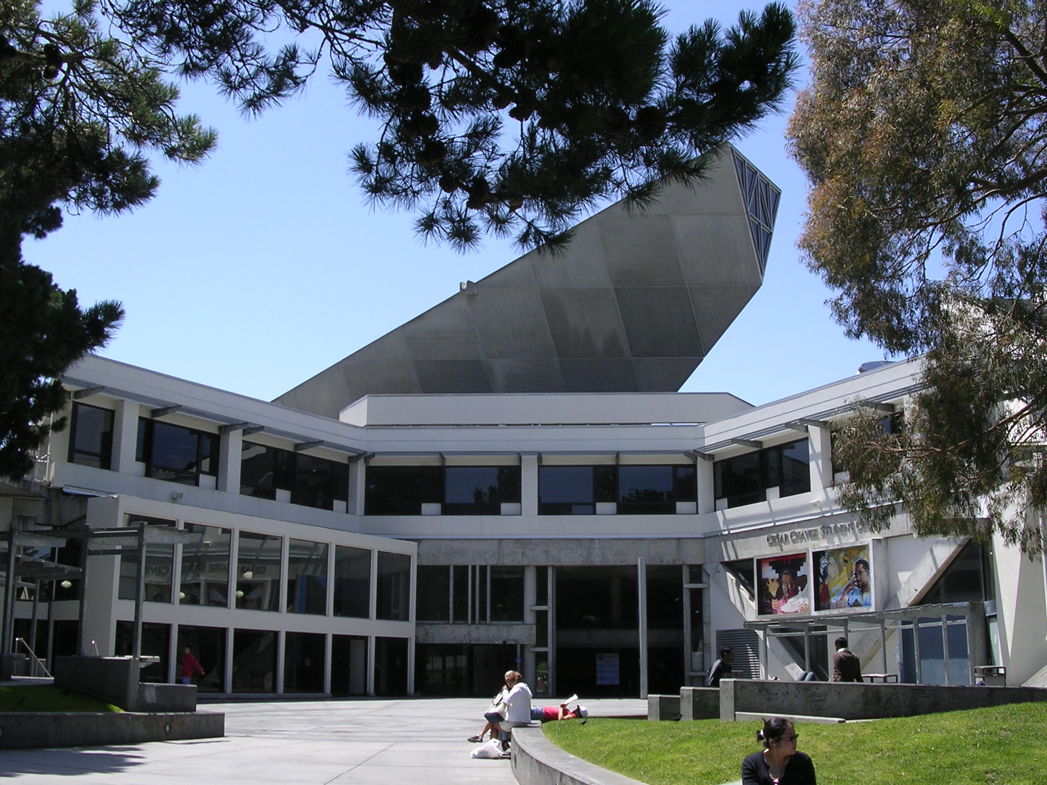 A photo of San Francisco State University's Student center.